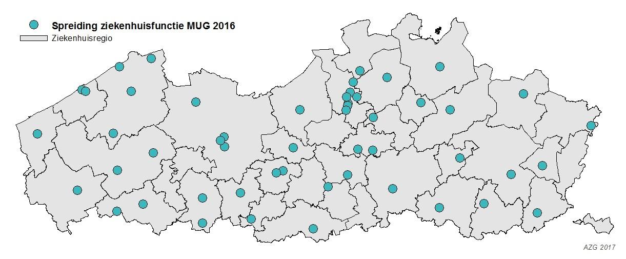 Geographical distribution of Emergency Doctor Units in 2016 in Flanders